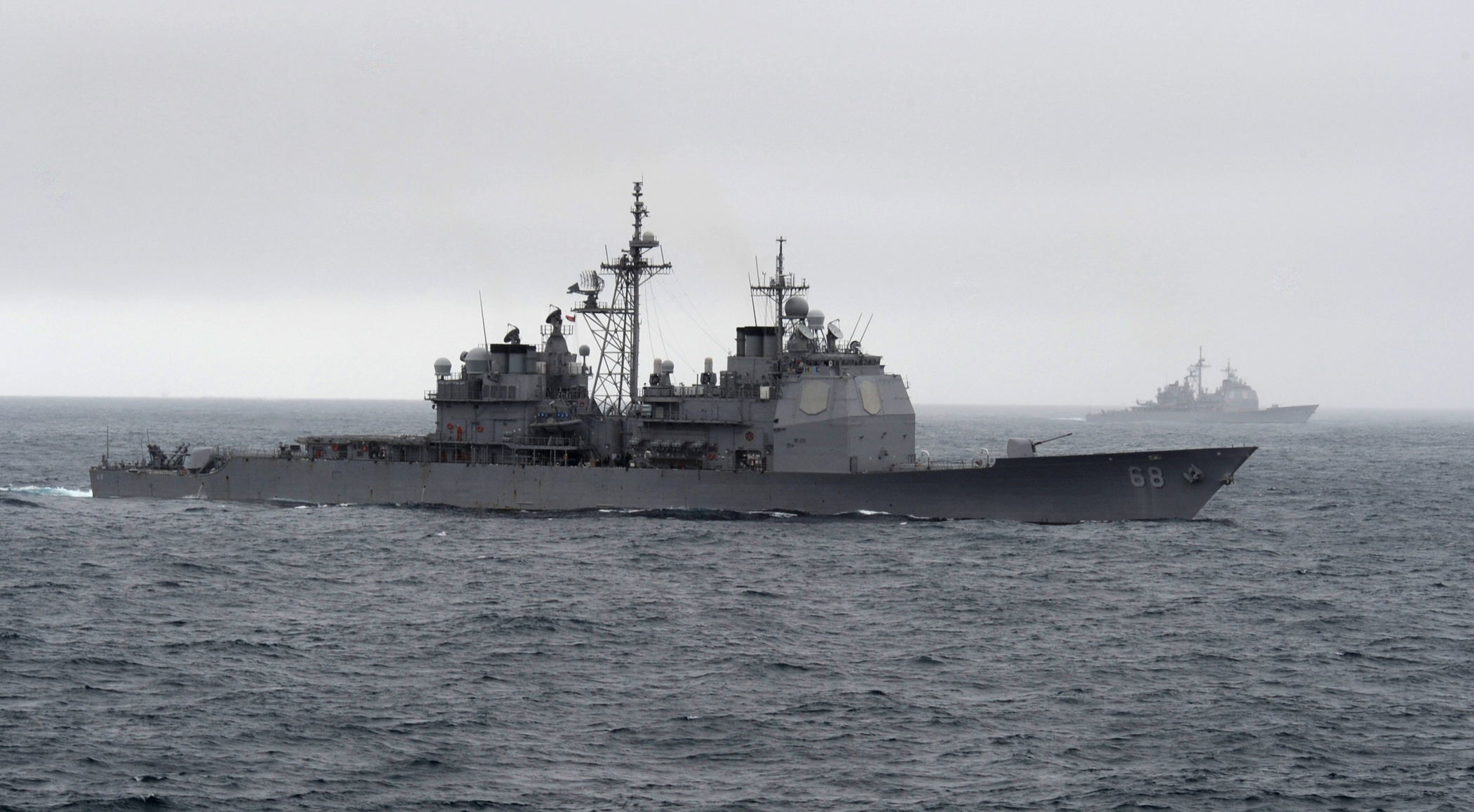 ATLANTIC OCEAN (May 15, 2011) The guided-missile cruiser USS Anzio (CG 68) and the guided-missile cruiser USS Gettysburg (CG 64), background, perform positioning maneuvers during a divisional tactics exercise. Anzio and Gettysburg are deployed as part of the George H.W. Bush Carrier Strike Group supporting maritime security operations and theater security cooperation efforts in the U.S. 5th and 6th Fleet areas of responsibility. (U.S. Navy photo by Mass Communication Specialist 3rd Class Kevin J. Steinberg/Released)